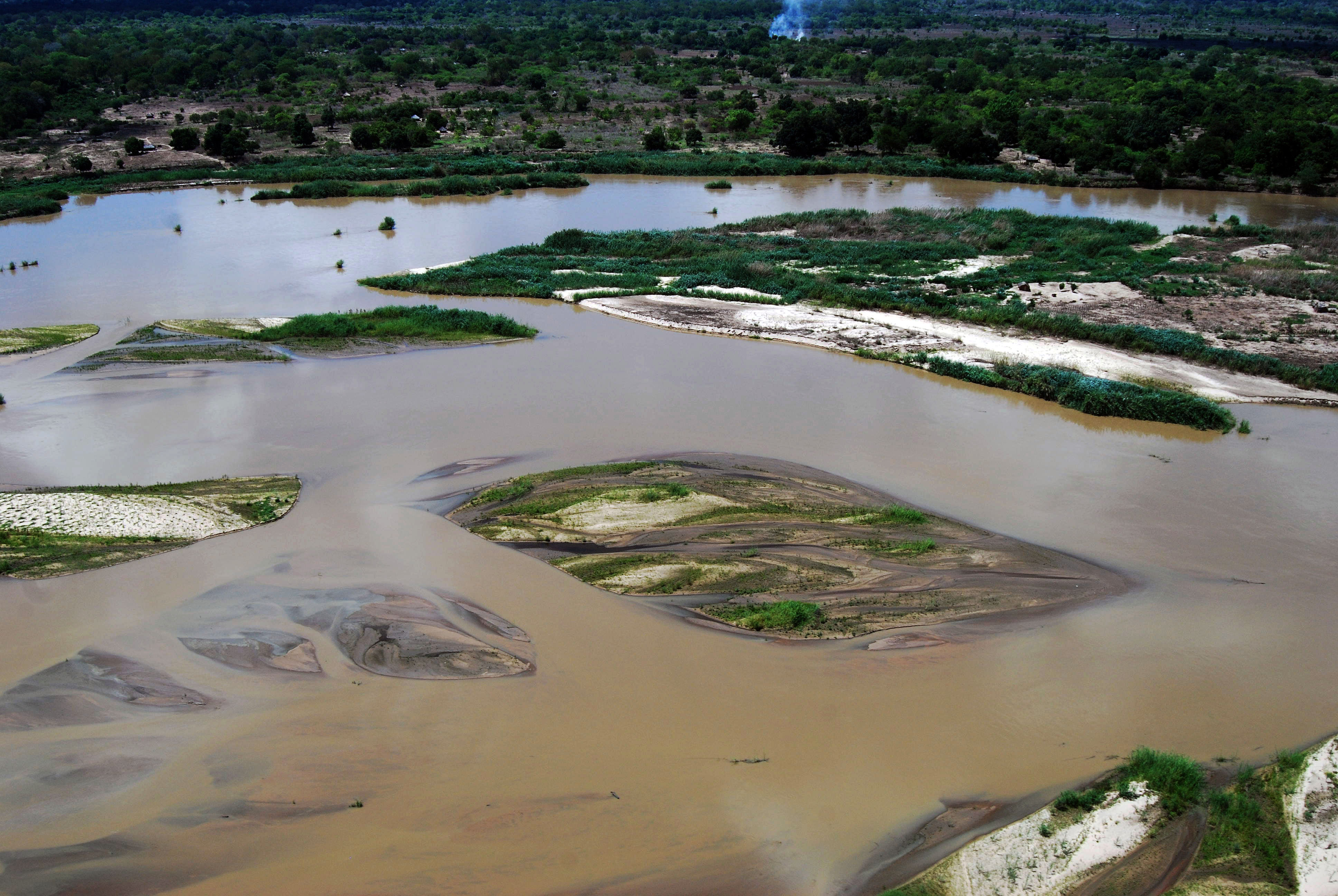 Rufiji River, Selous Game Reserve, Tanzania